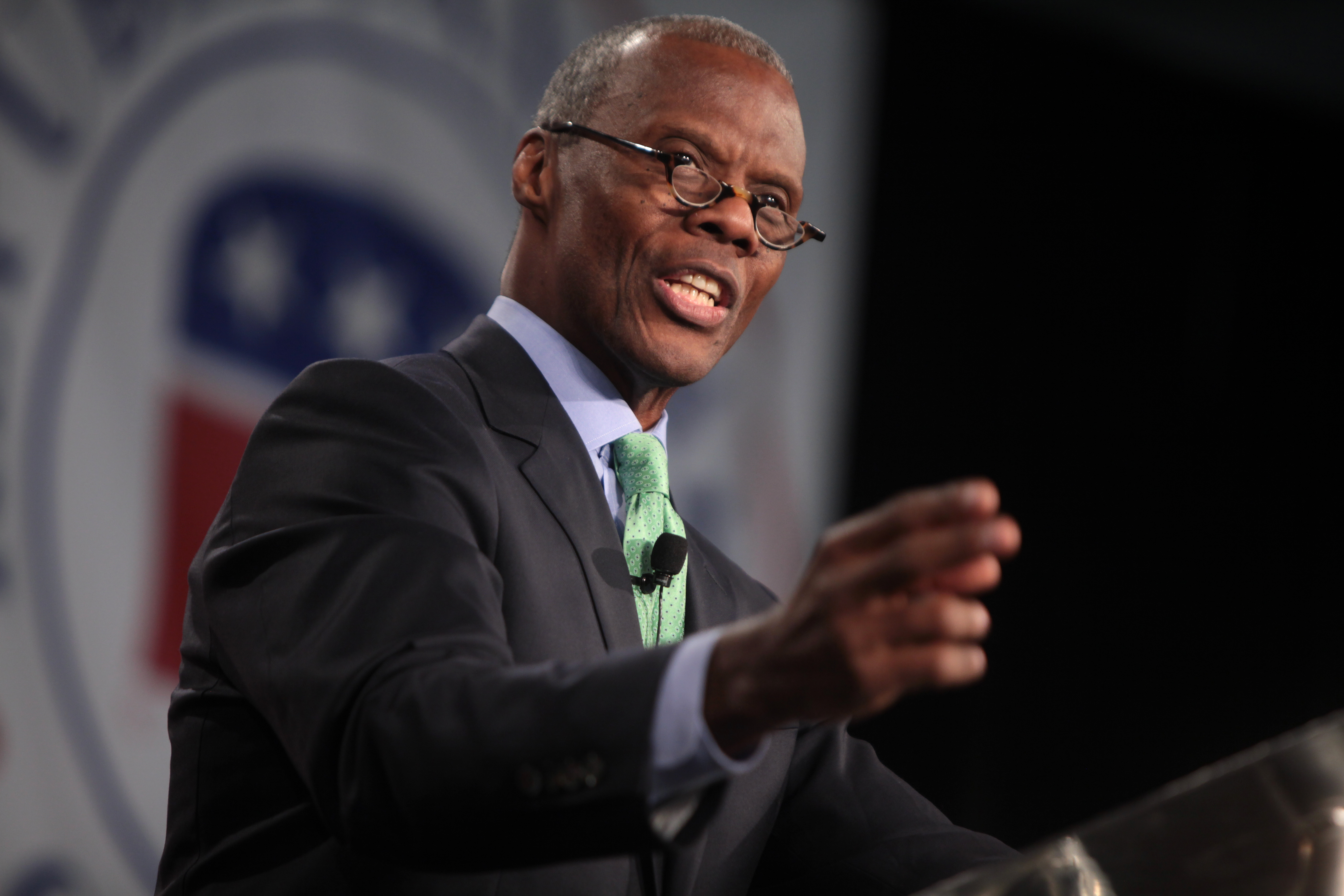 J. C. Watts speaking at the Iowa GOP's Growth and Opportunity Party in Des Moines, Iowa on October 31, 2015.